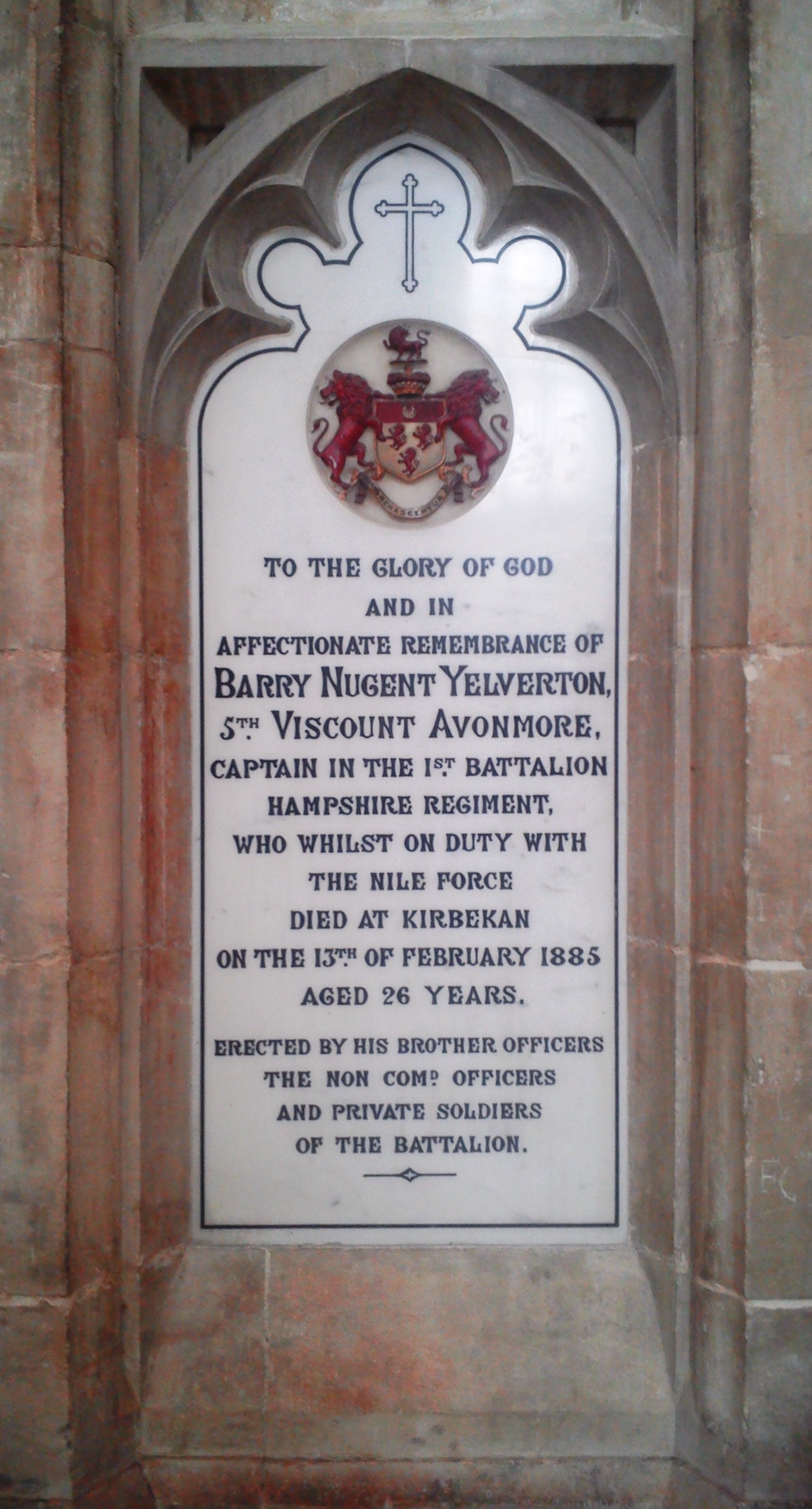 Winchester Cathedral, memorial for the 5th Viscount Avonmore (died 1885). Location: South wall of the Nave.